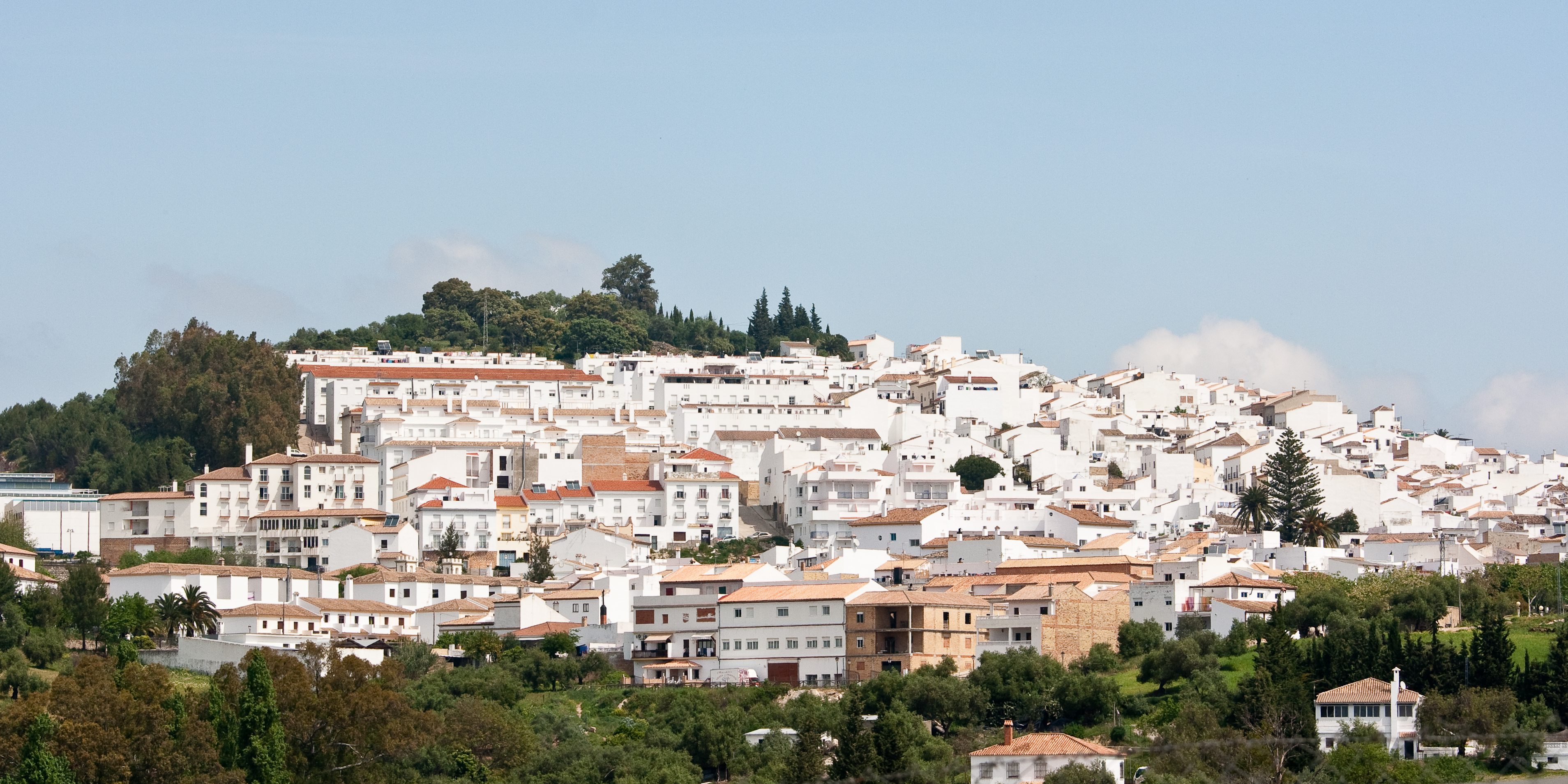 Vista general de Prado del Rey, Cádiz